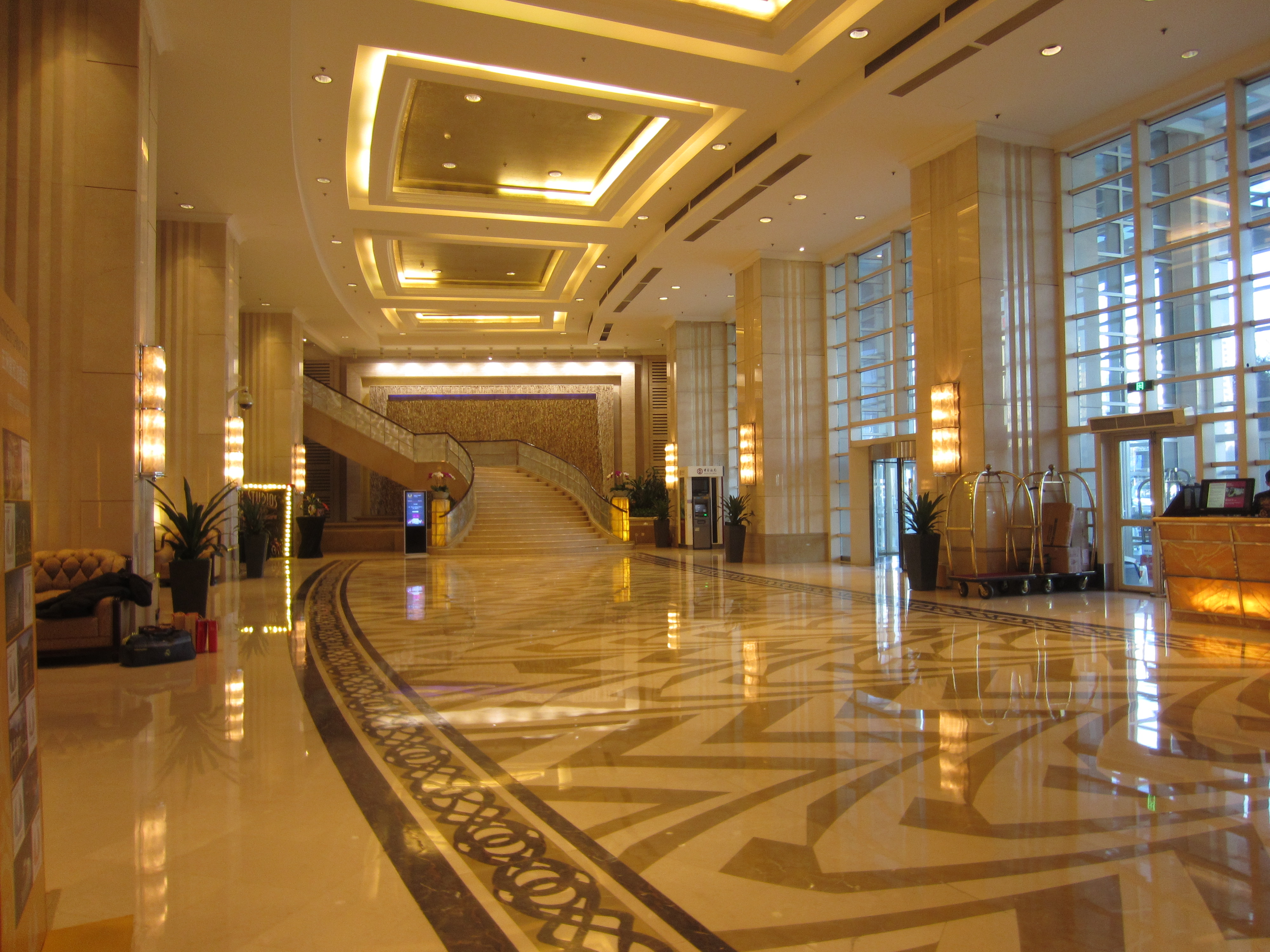 Beijing (November 2016) 北京五洲大酒店